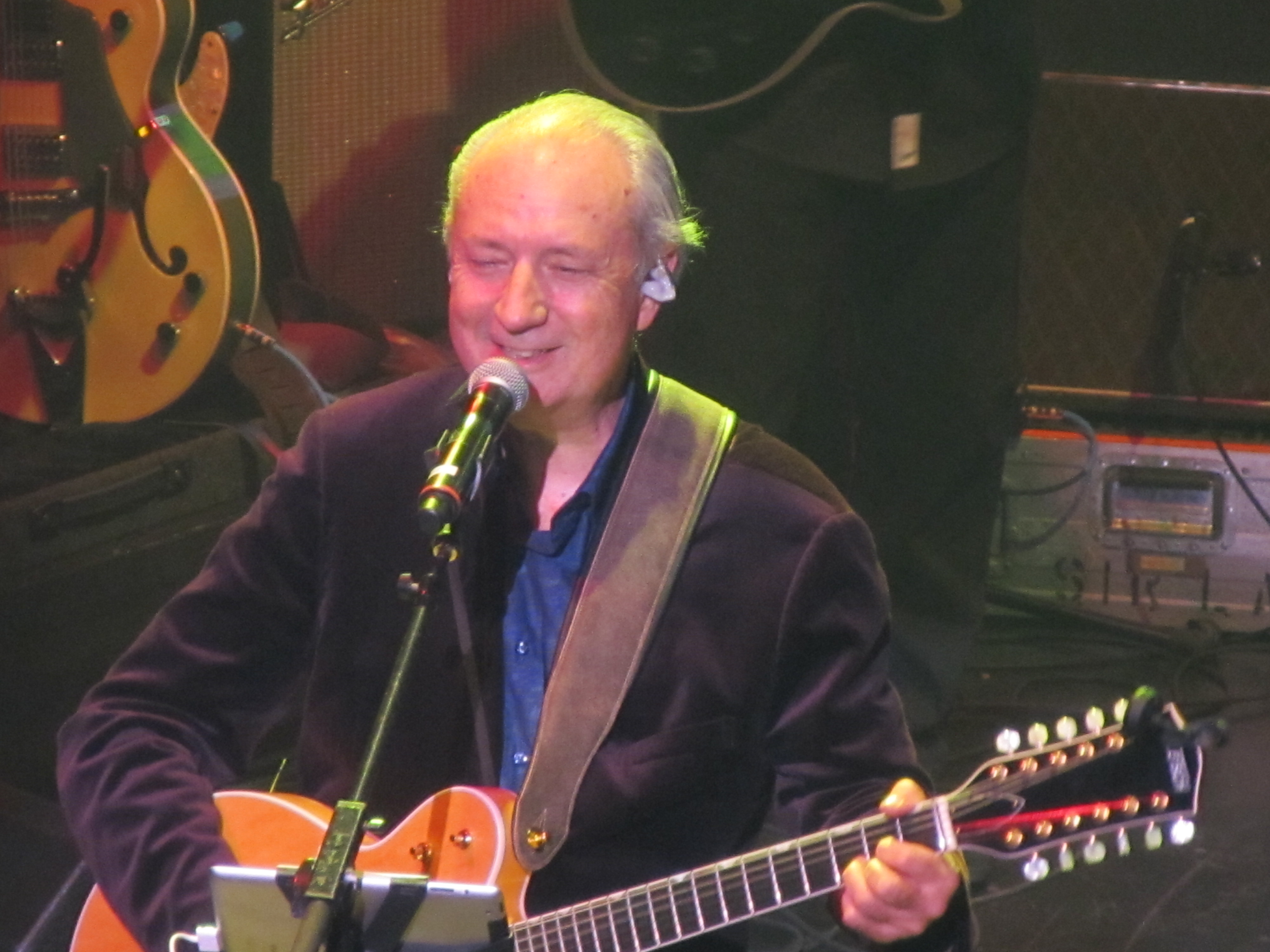 Michael Nesmith during the Monkees tour of 2012.